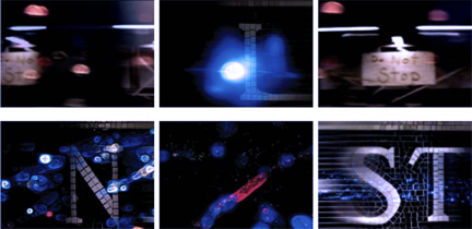 Tim White-Sobieski,Terminal II (Terminal At Night), from Terminal Series; Video Stills 2002